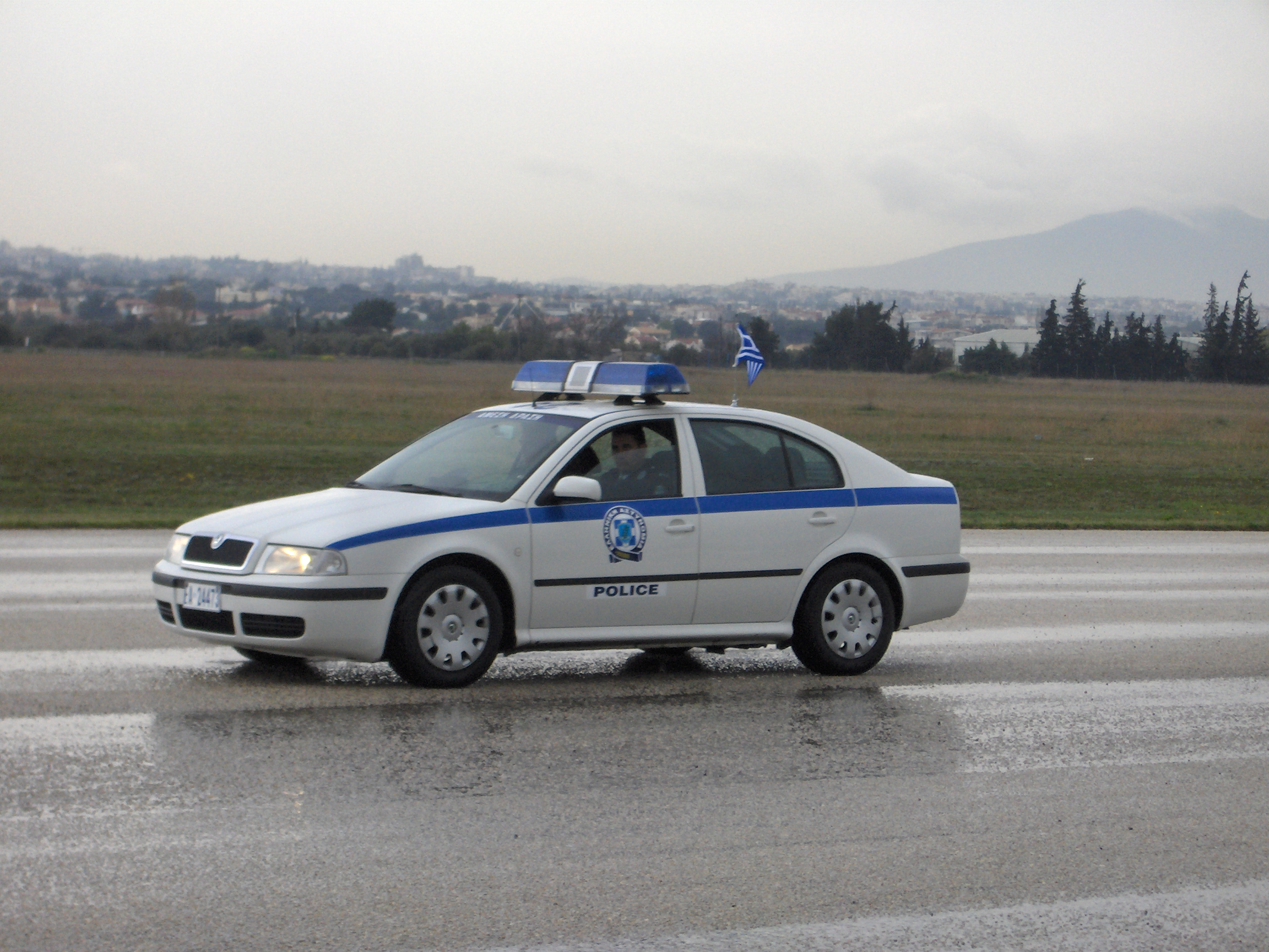 Greek police car